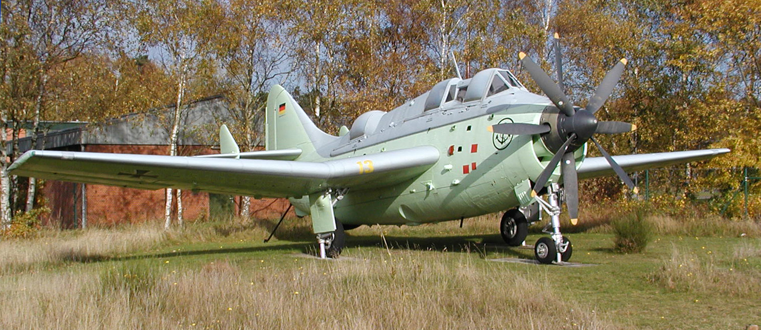 Fairey Gannet A.S.4